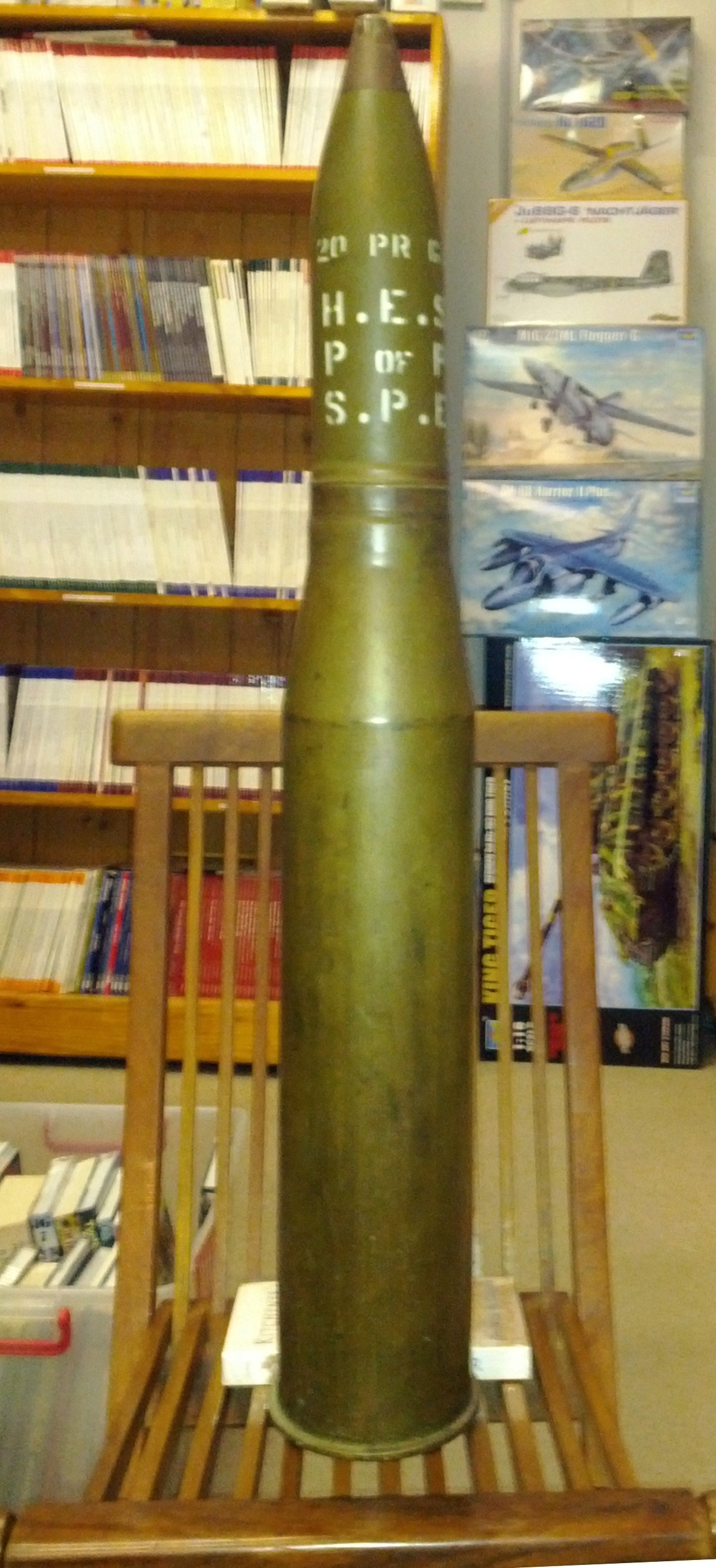 Photograph showing British 20-pounder tank gun cartridge case with HE shell. Photograph taken in a military bookshop in Parramatta, NSW, Australia.